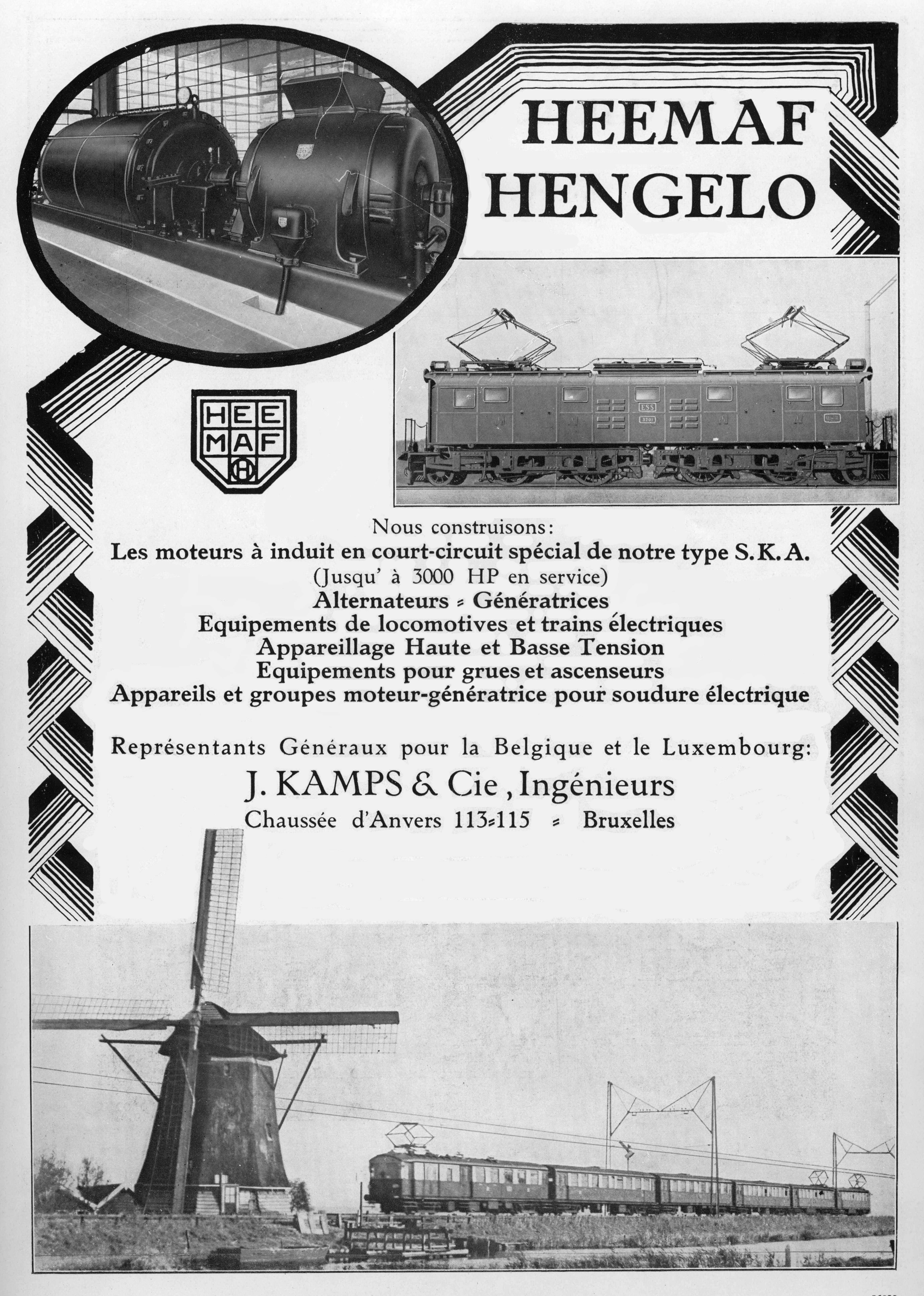 Heemaf Hengelo advertisement. Railway equipment.